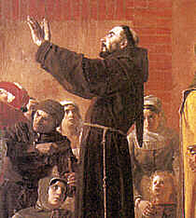 Bernard Délicieux, the Agitator of Languedoc.